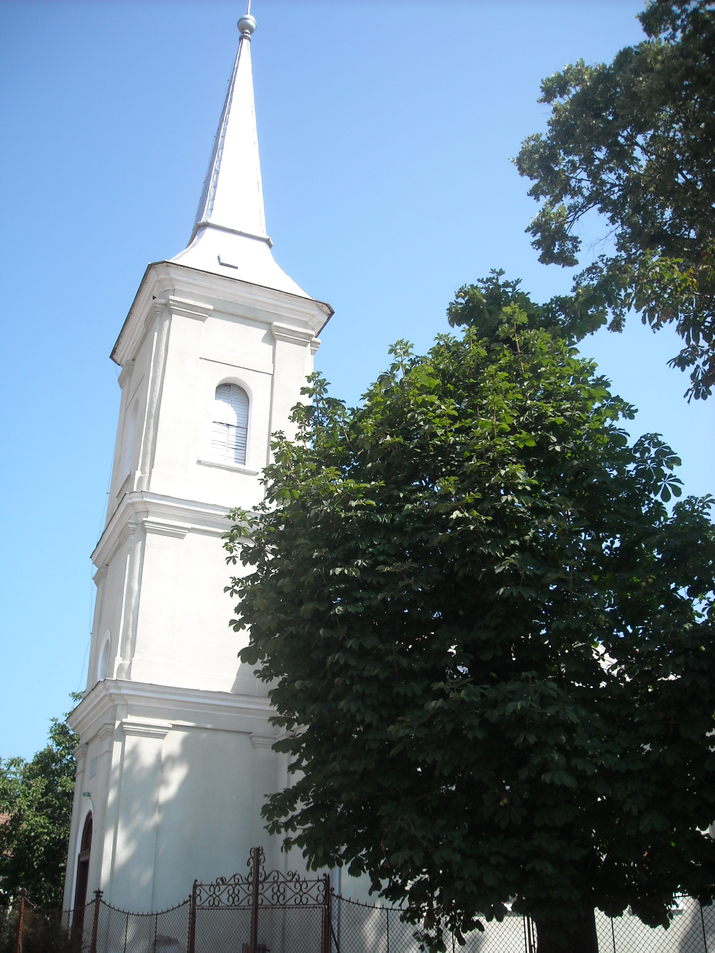 Reformed (Calvinist) church in Haţeg/Hátszeg, Romania